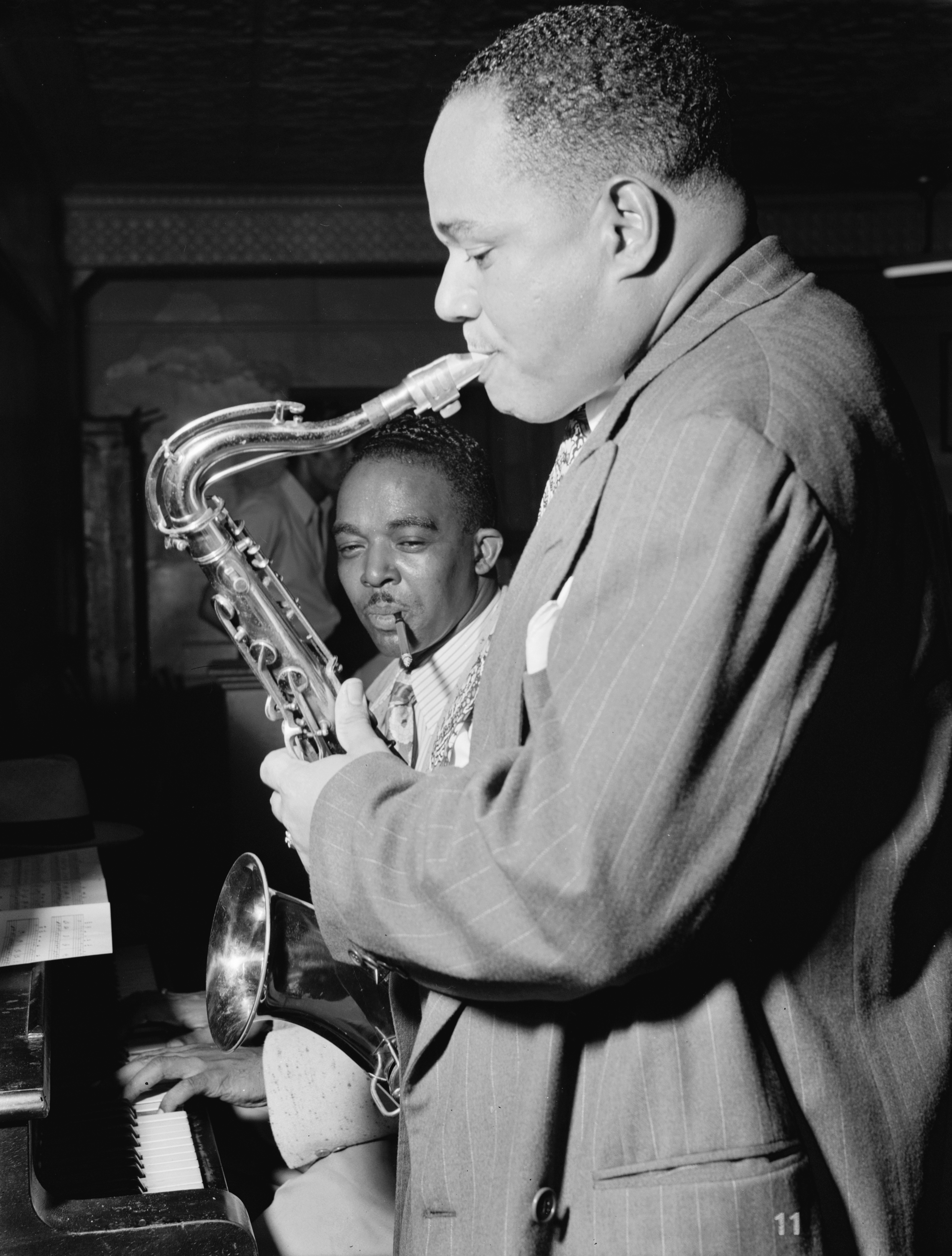 Joe Thomas and Eddie Wilcox, Loyal Charles Lodge, NYC, October 1947. Photography by William P. Gottlieb